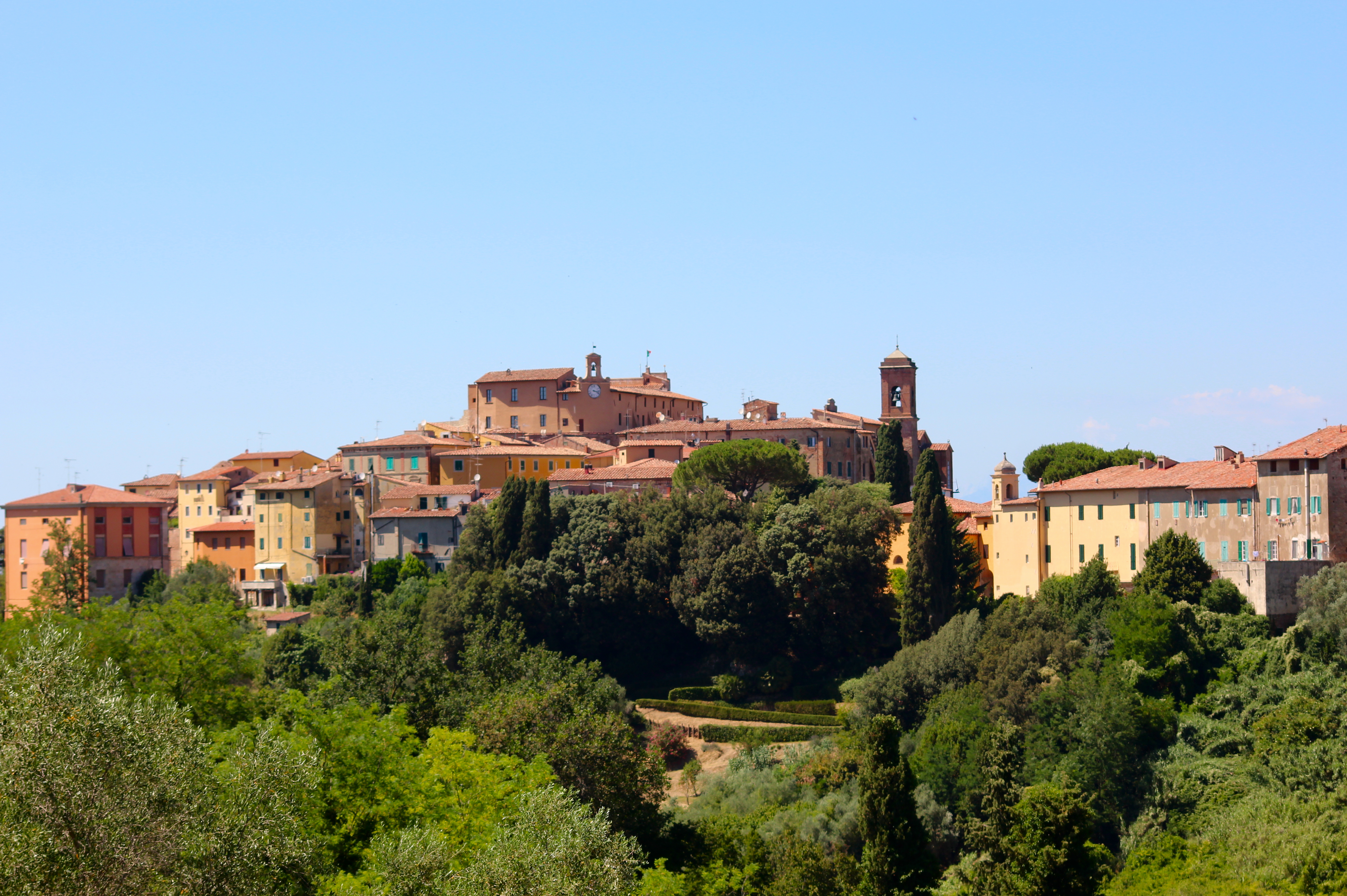 Panorama of Lari, hamlet of Casciana Terme Lari, Province of Pisa, Tuscany, Italy